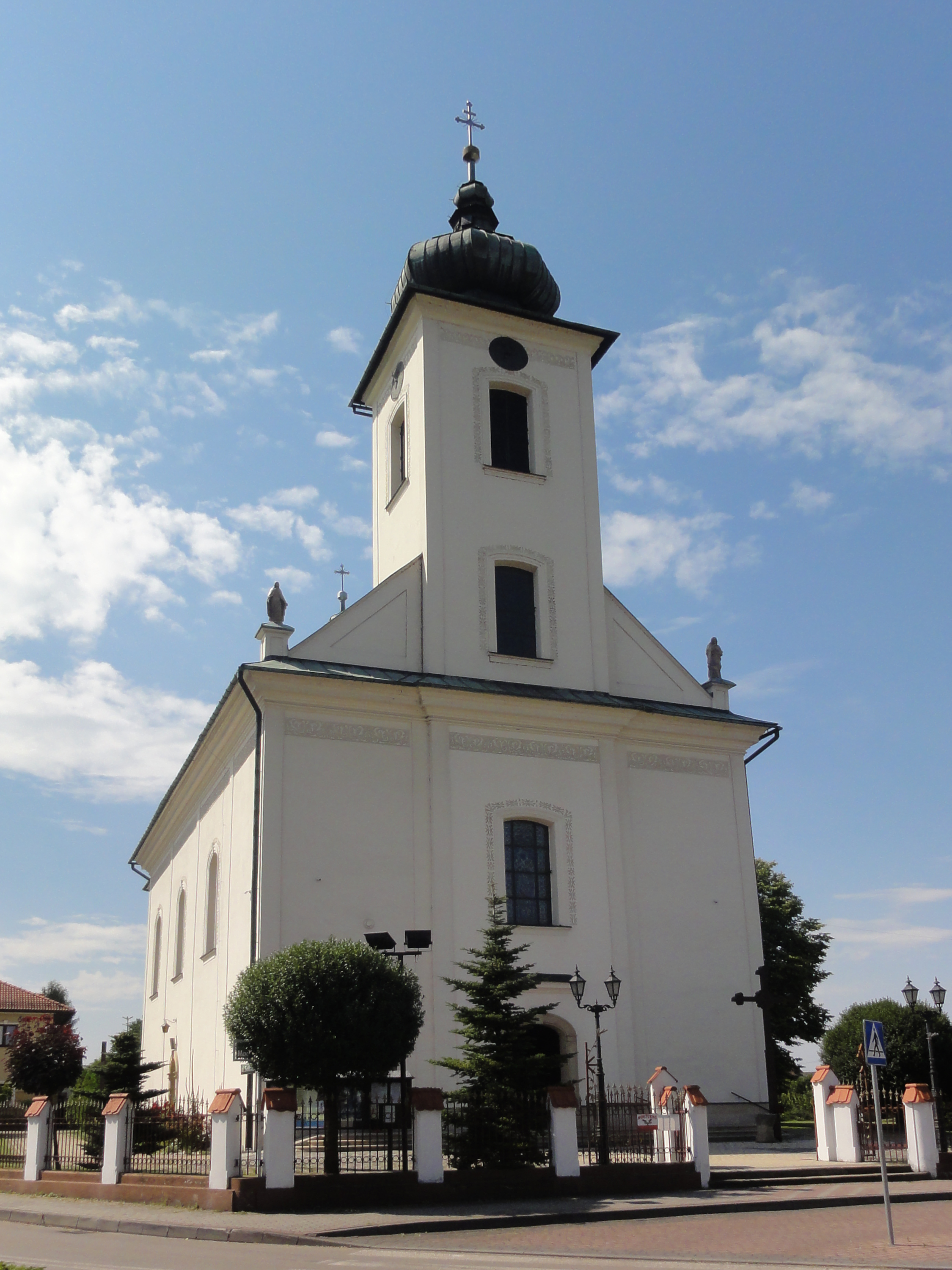 Saint Matthias church in Bielany